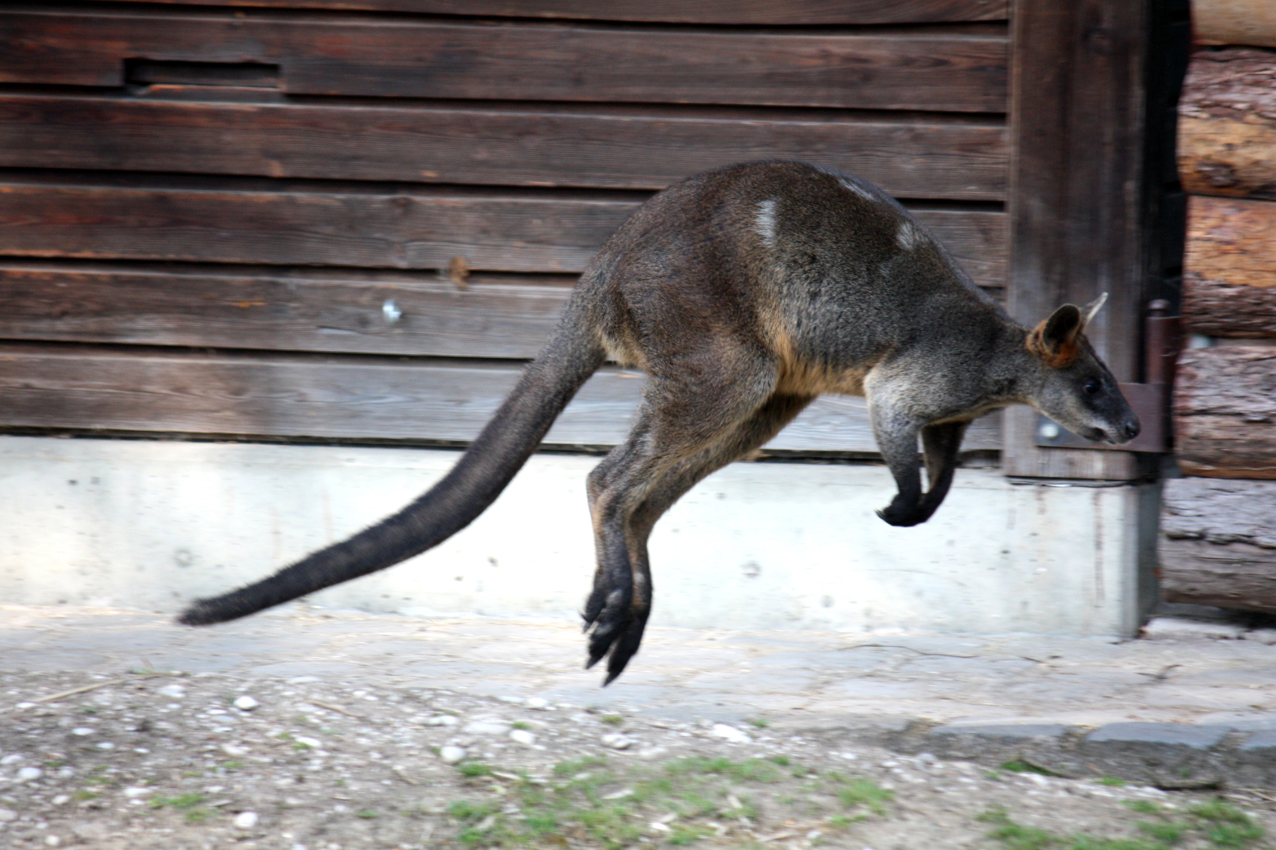 Wallaby bicolor